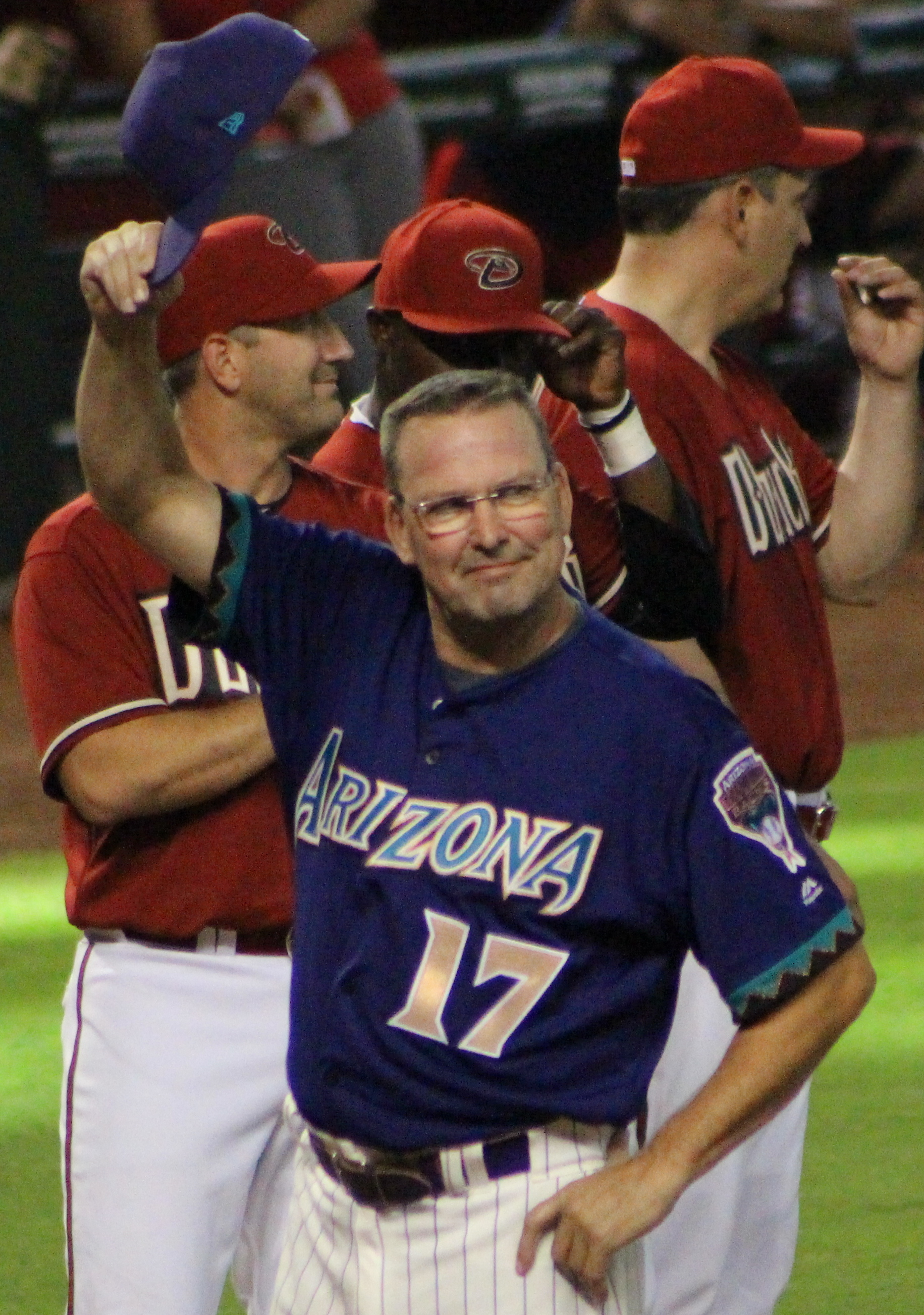 Mark Grace raises his hat to the crowd at Chase Field during introductions before the Arizona Diamondbacks' Alumni Game in 2017. Steve Finley and Luis Gonzalez stand next to Grace and Willie Bloomquist, Orlando Hudson, Erubiel Durazo and Matt Williams stand behind him.